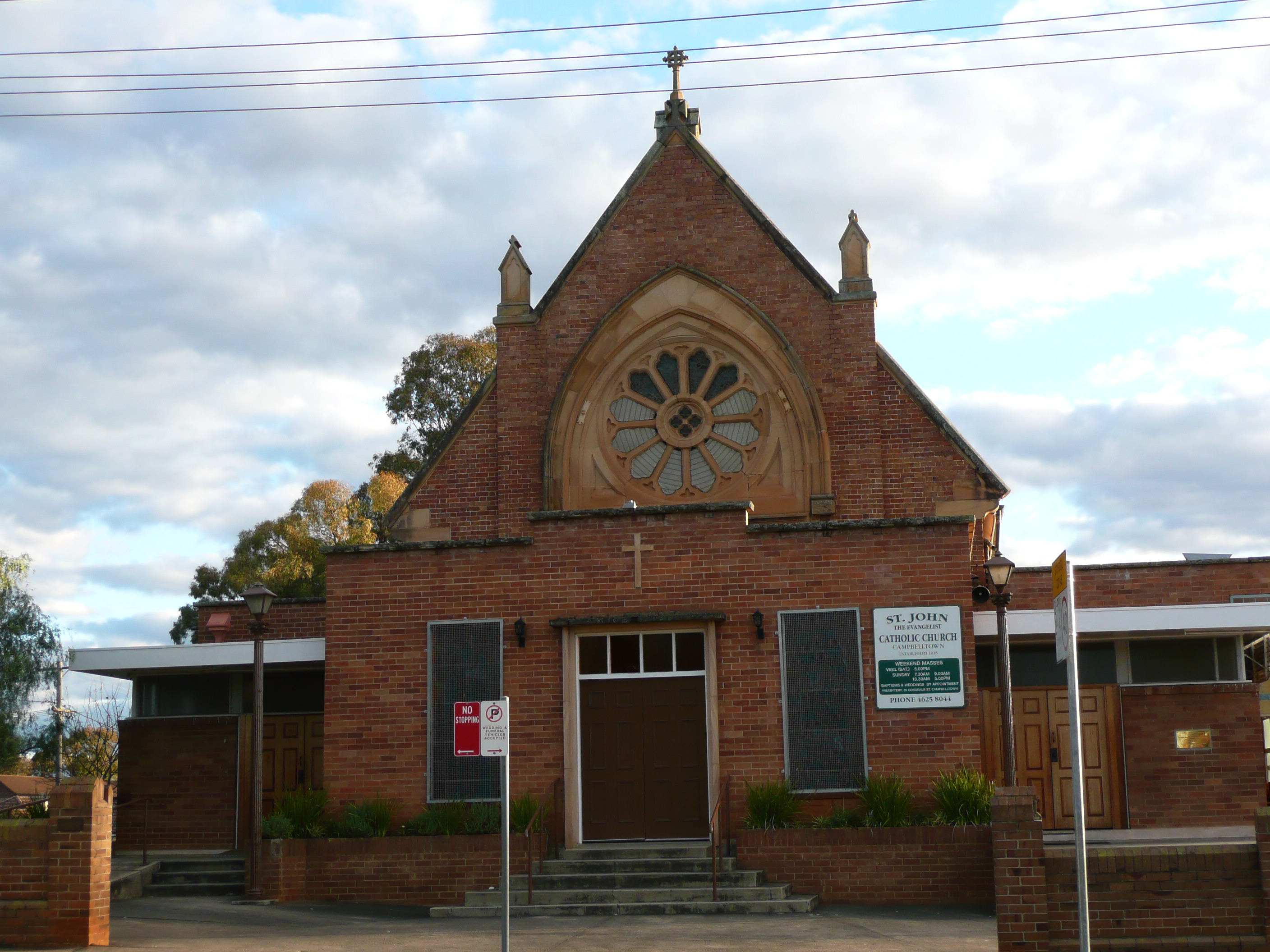 church, sydney